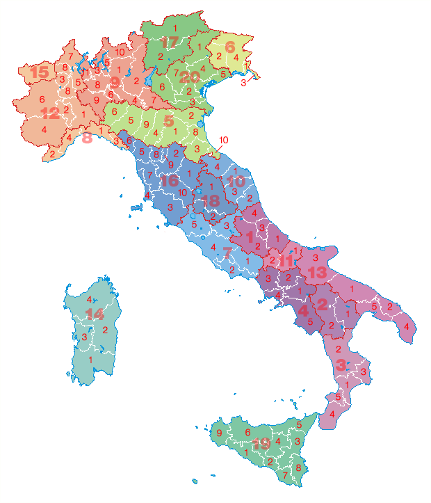 Map of Italy and its districts.